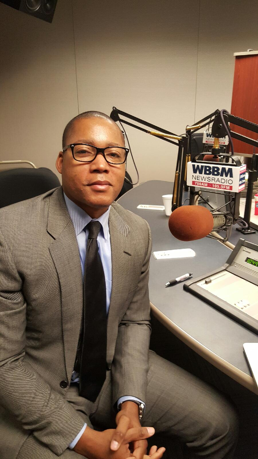 Samuel Jones after an appearance on 'At Issue,' WBBM Newsradio, CBS Chicago.